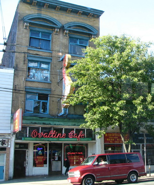 Ovaltine Cafe and Afton Hotel on East Hastings Street, Vancouver